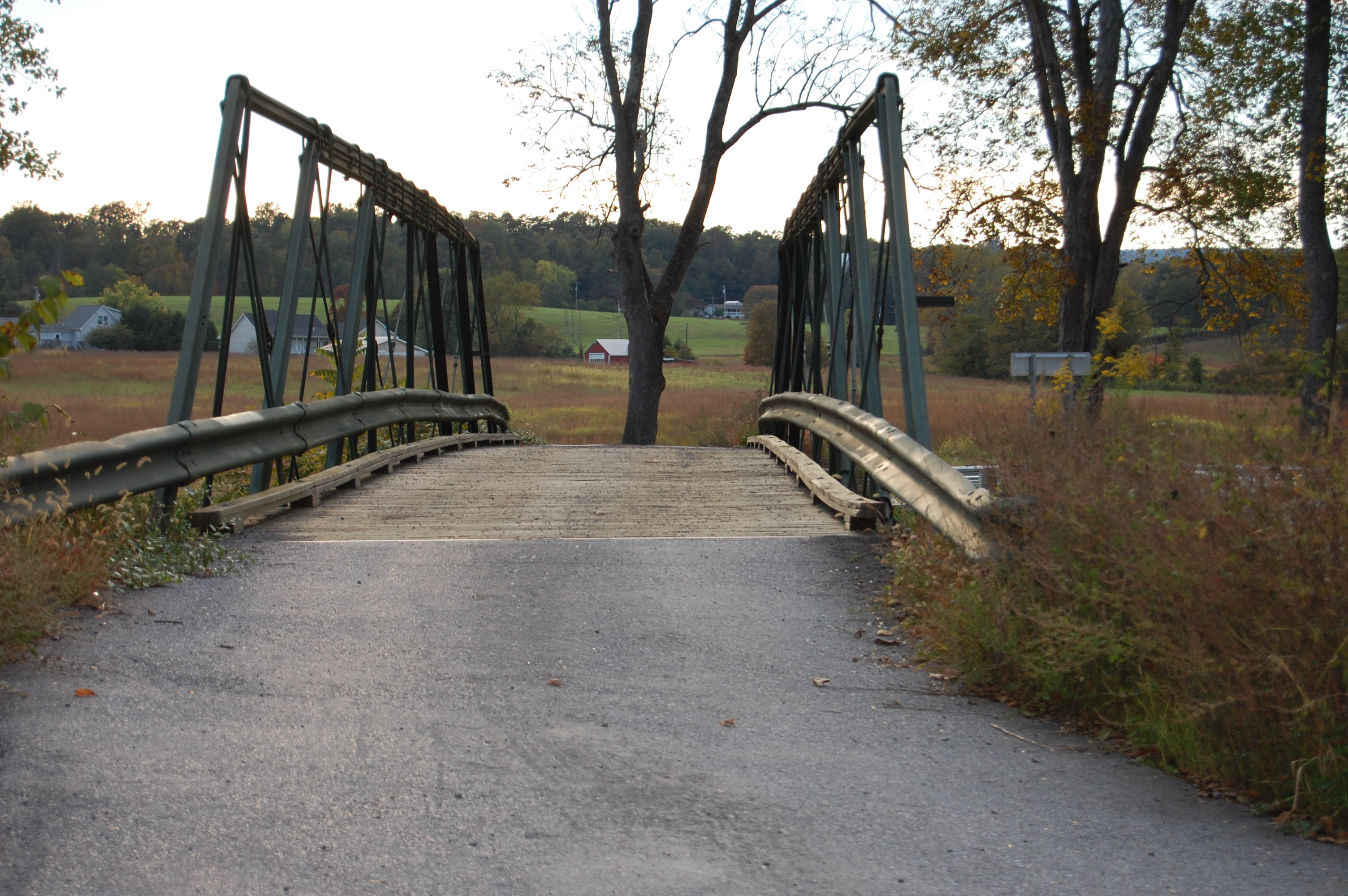 Parks